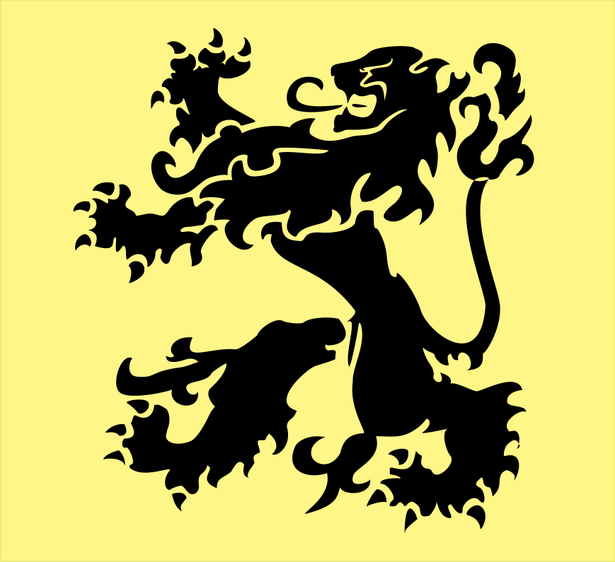 This vector graphic was made by myself. It is my own work.